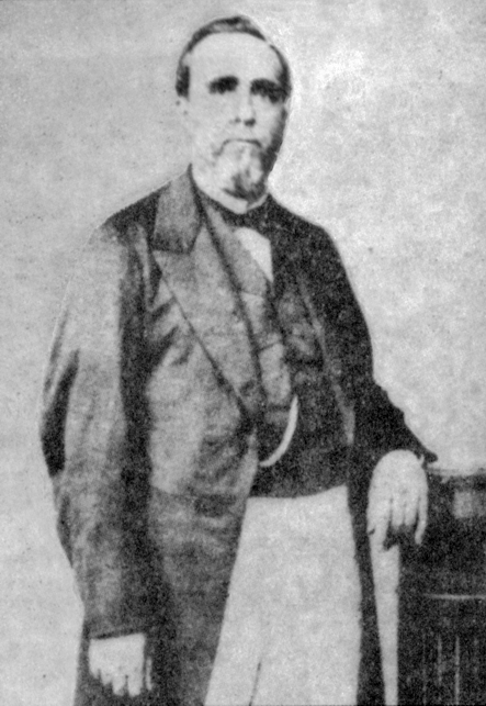 Francisco Peixoto de Lacerda Vernek (ou Werneck), second earl of Pati do Alferes being around 60 years old.